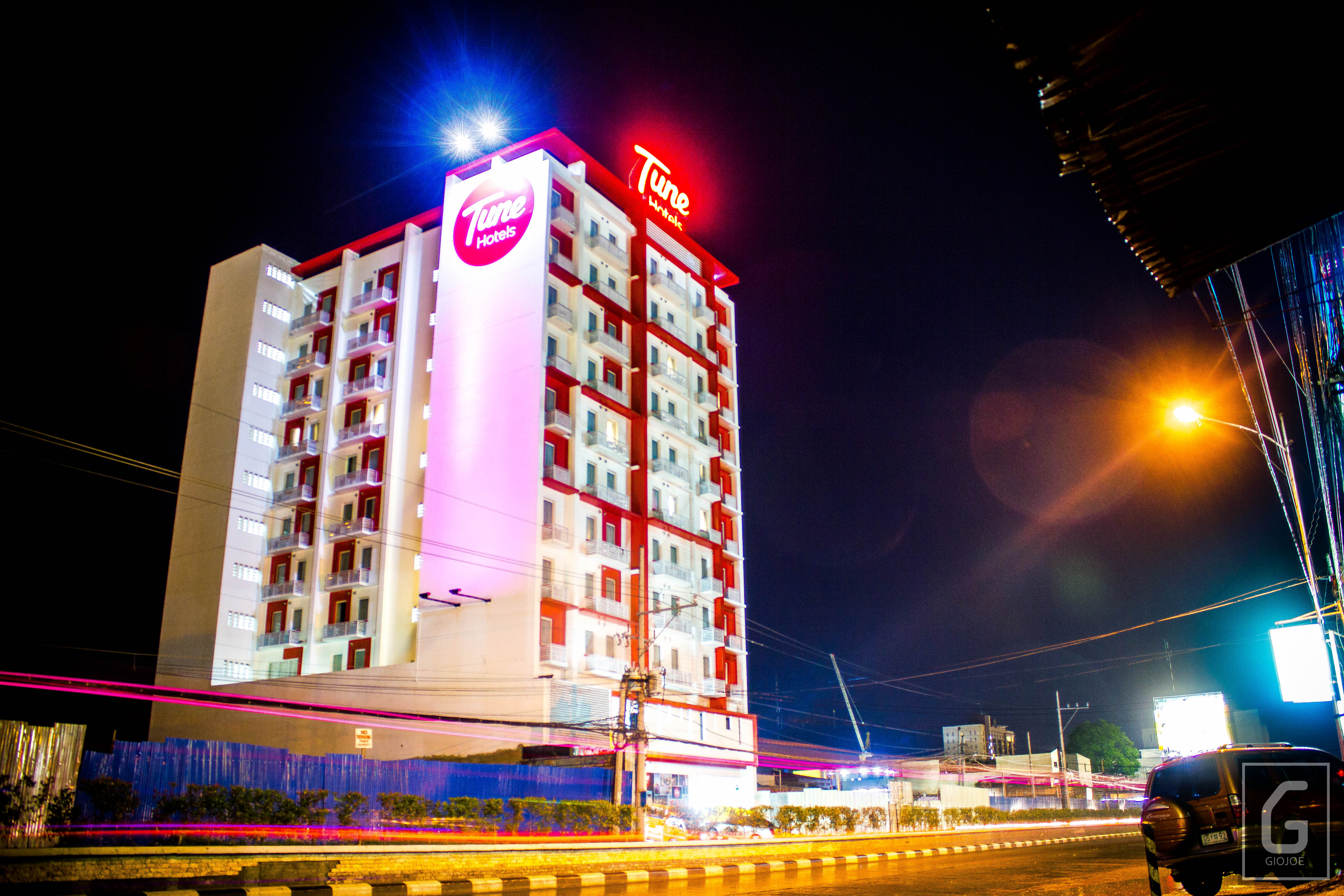 TuneHotel CDO